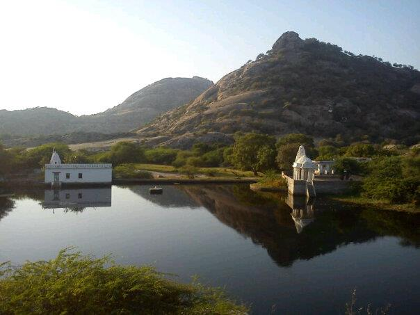 velar